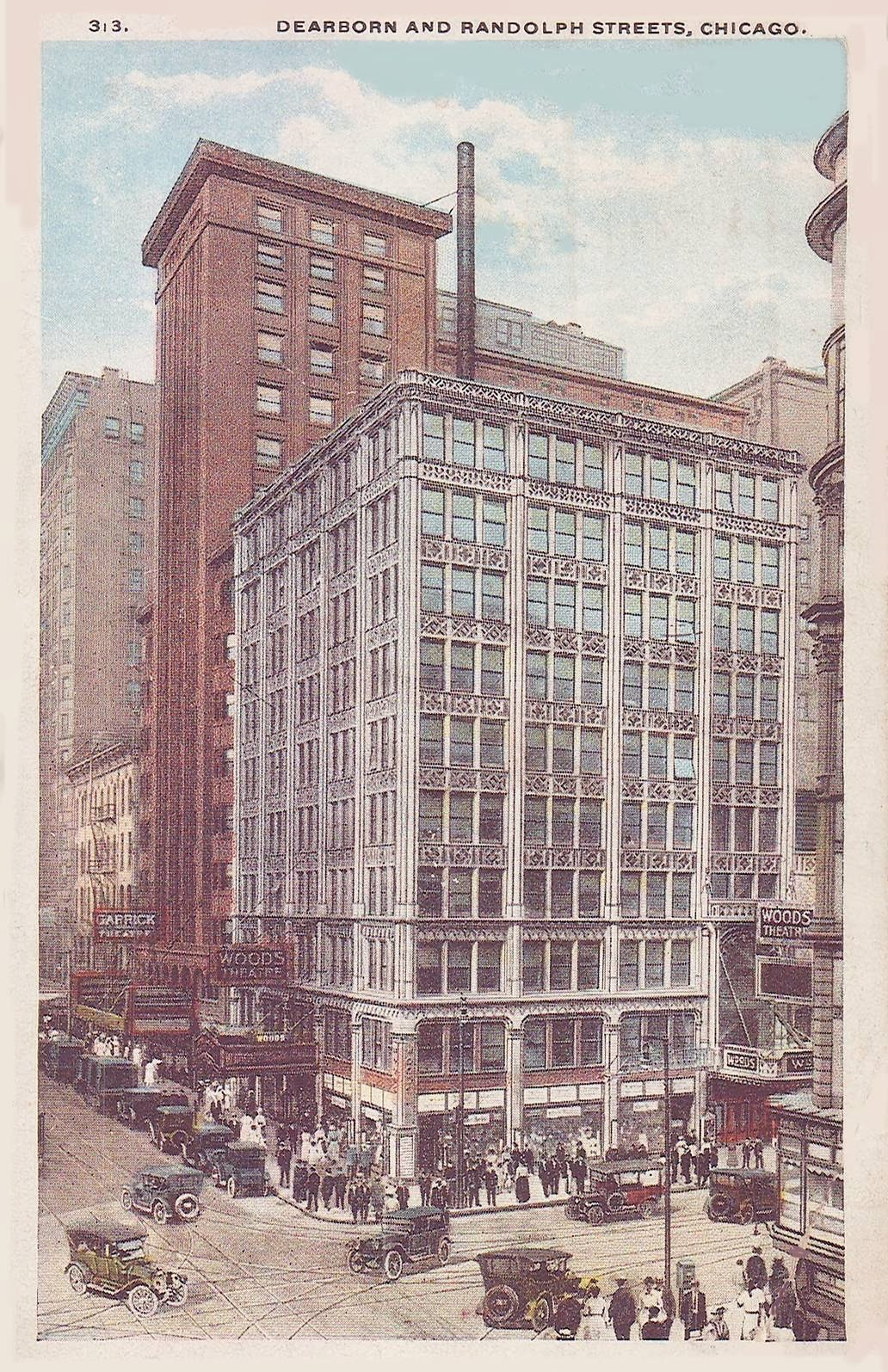 1922 postcard showing the corner of Randolph Street and Dearborn Street in Chicago, Illinois, including the Woods Theatre and the Garrick Theatre.